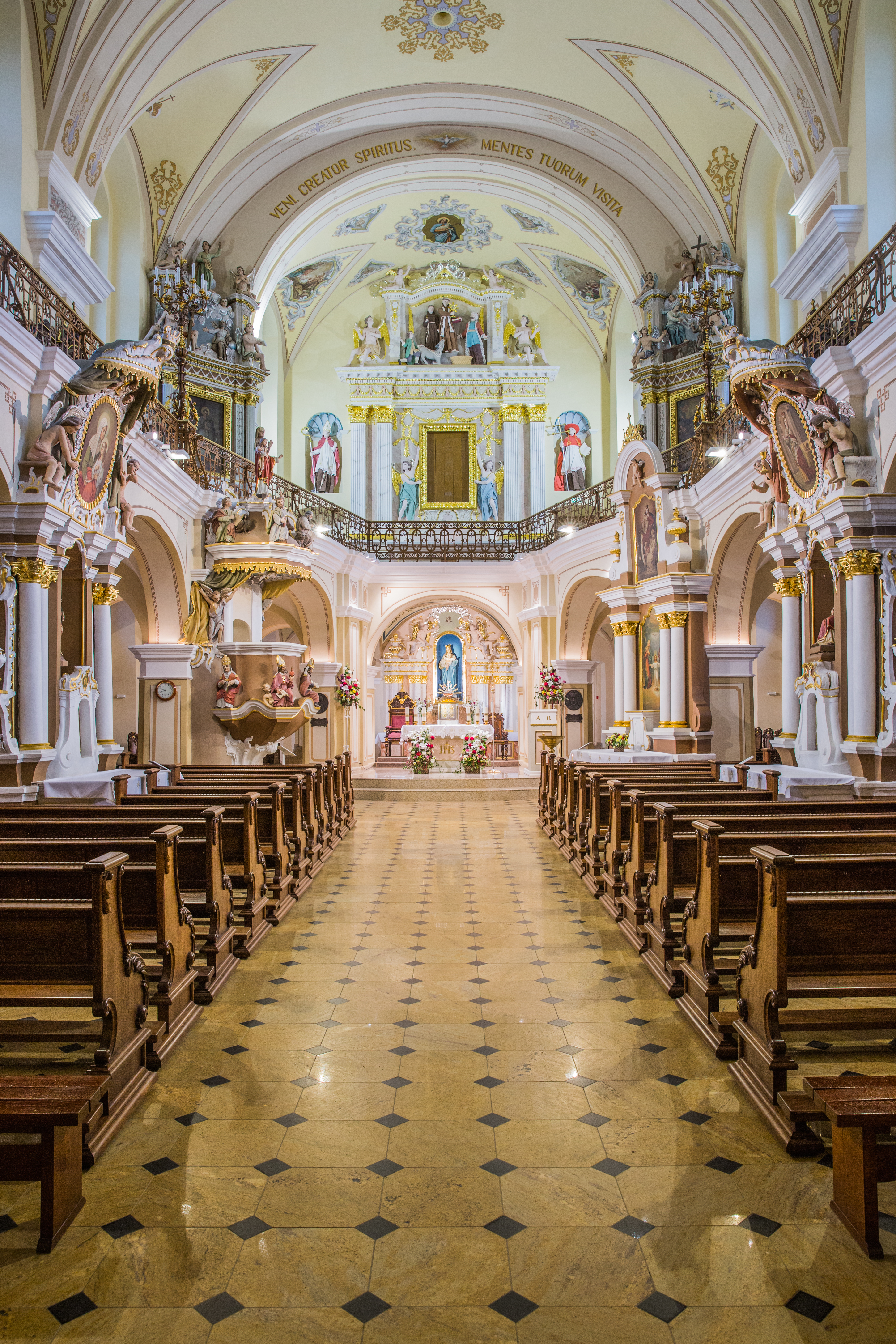 Telsiu bernardinu koplycio altorius